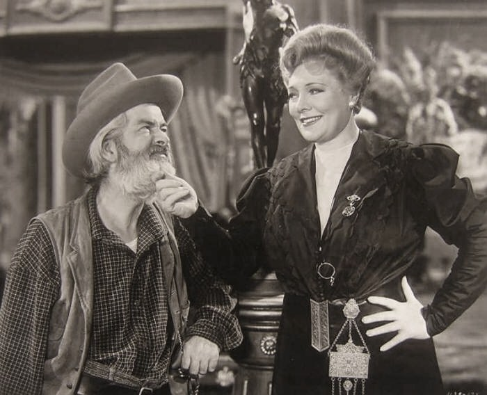 George 'Gabby' Hayes & Marjorie Rambeau in In Old Oklahoma aka War of the Wildcats - cropped screenshot